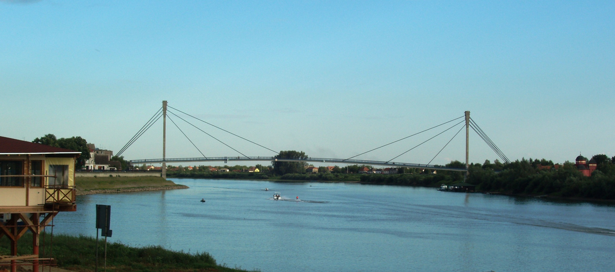 The bridge of St Ireney above the Sava, at Sremska Mitrovica, Serbia, Vojvodina/Le pont Saint-Irénée sur la Save (Danube) à Sremska Mitrovica, Voïvodine, Serbie